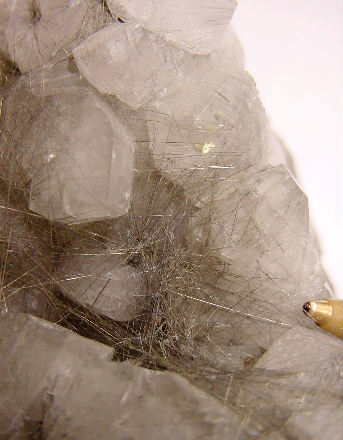 Millerite (with Pen for scale) - Mineral collection of Brigham Young University Department of Geology, Provo, Utah. BYU index 2-4067b